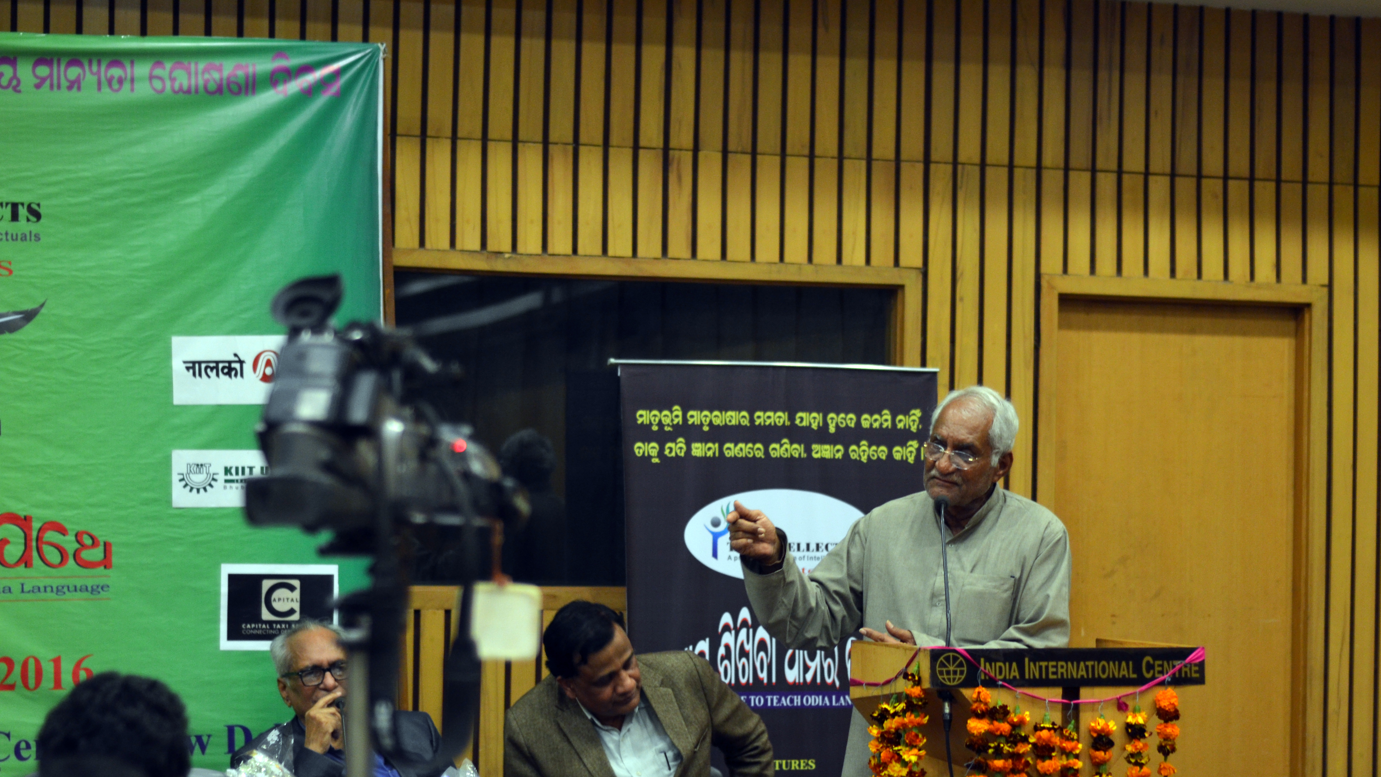 Vishwanath Prasad Tiwari, current president of Sahitya Akademi delivering a talk during 2nd International Conclave of Odia language 2016 at India International Centre, New Delhi.